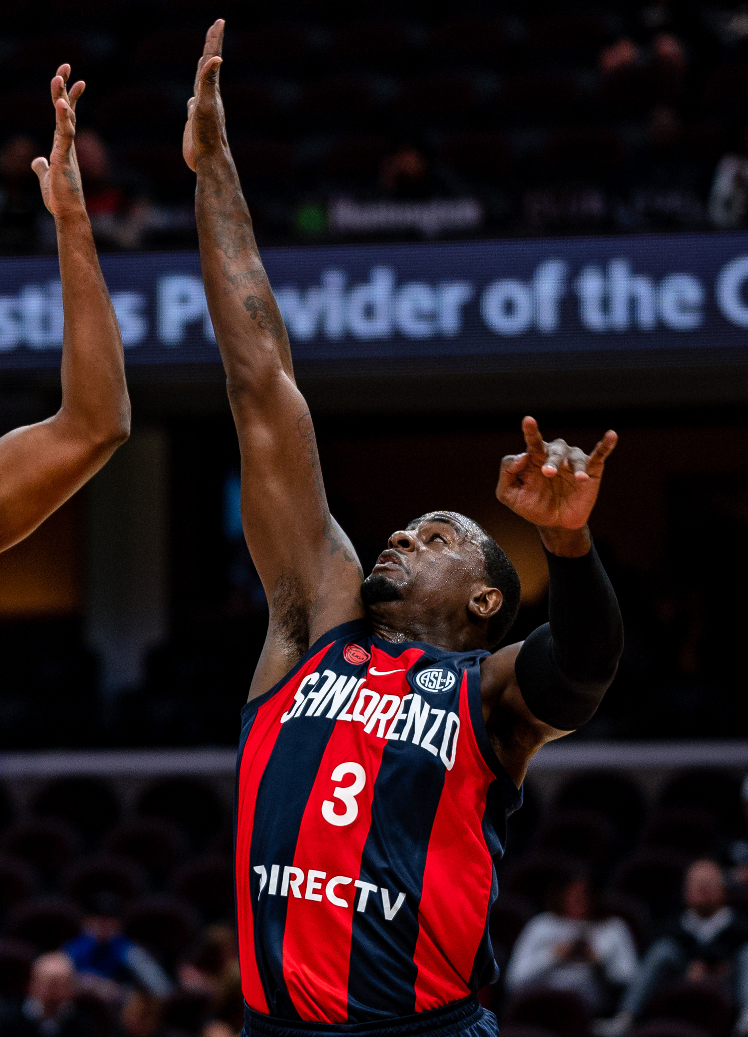 Tristian Thompson of the Cleveland Cavaliers drives against San Lorenzo de Almagro defender Justin Williams during a 2019 preseason exhibition game at Rocket Mortgage FieldHouse in Cleveland.